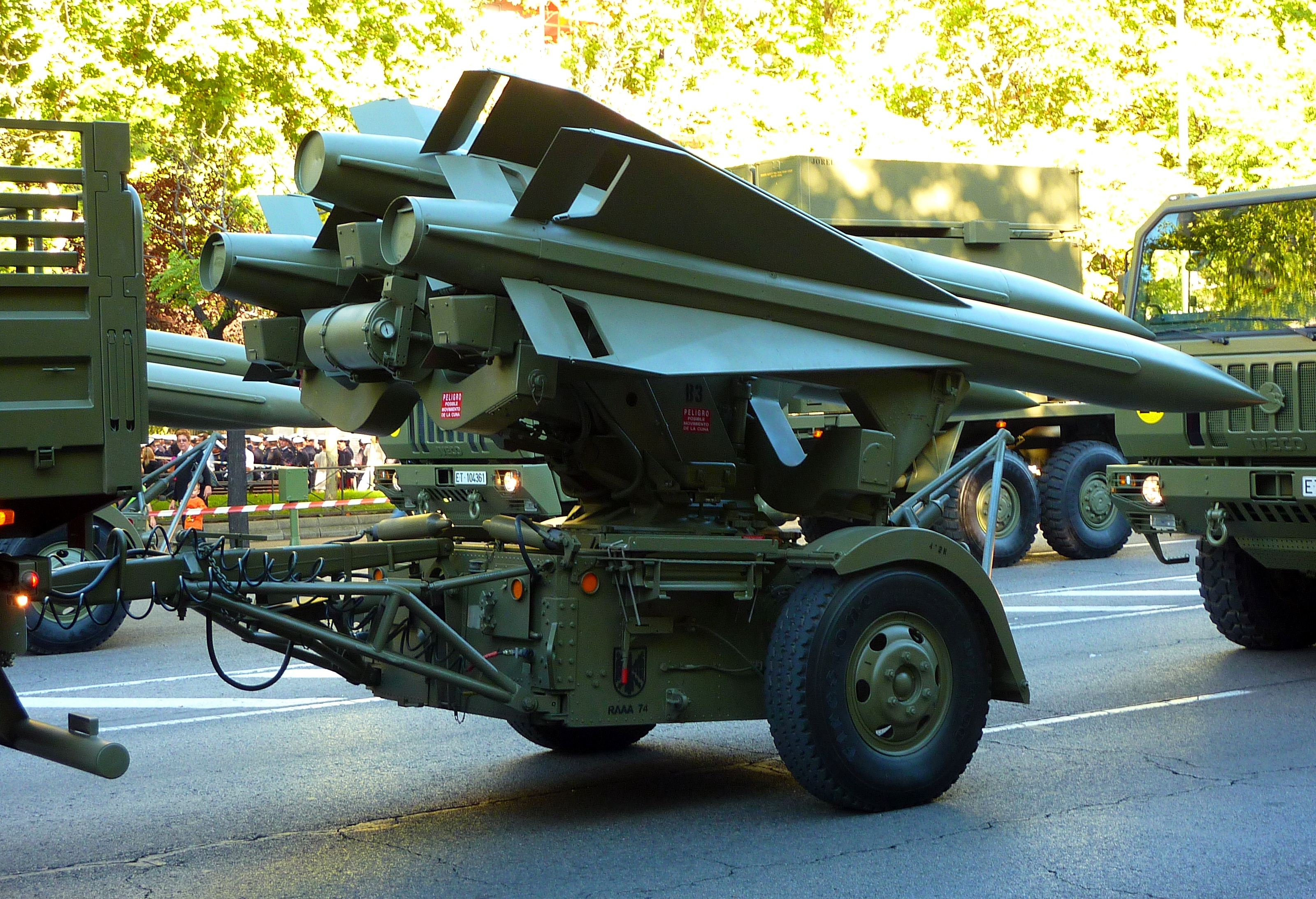 Spanish Army MIM-23 Hawk.